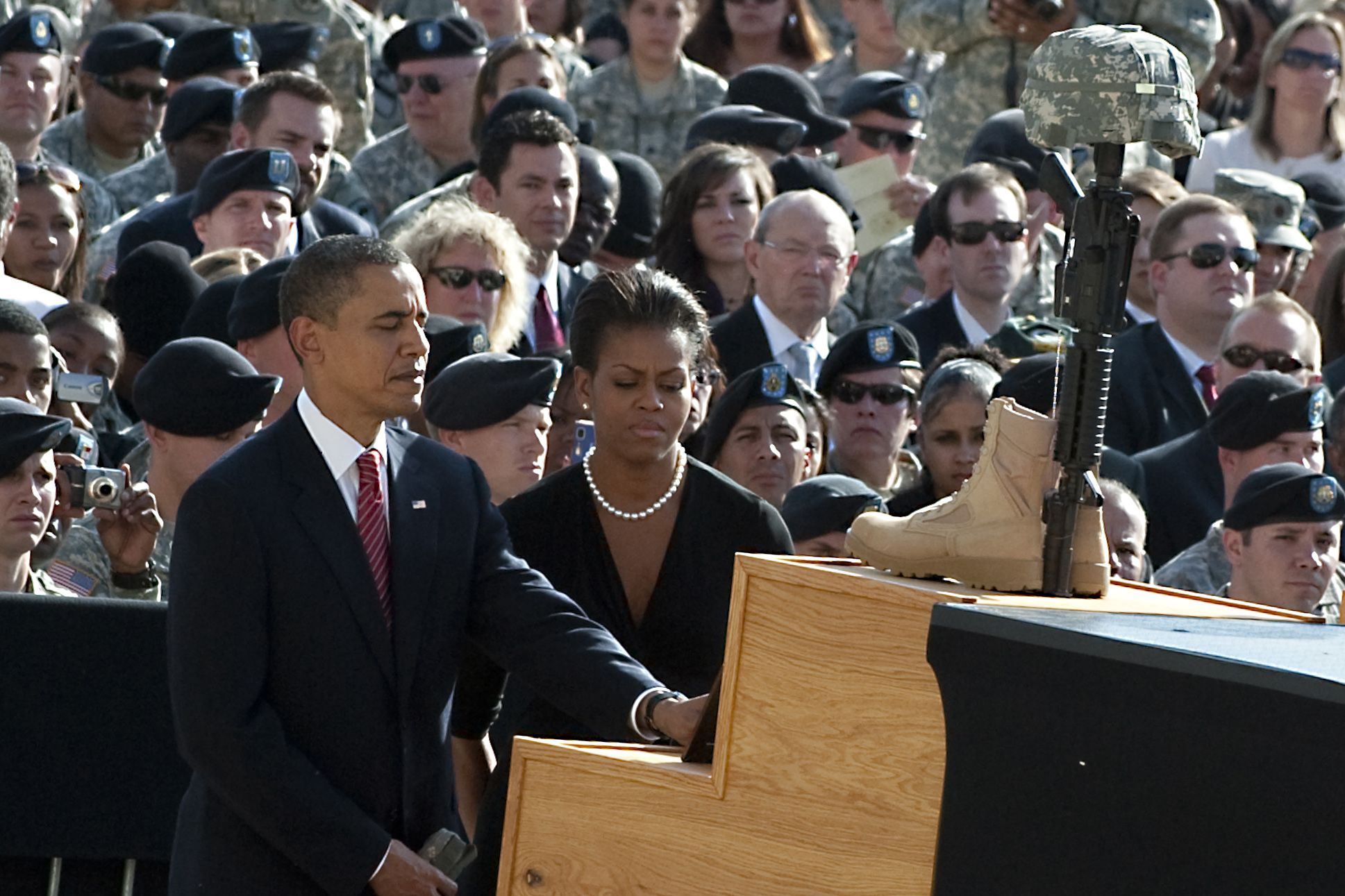 Taking part in a Nov. 10, 2009, memorial service on Fort Hood, Texas, President Barack Obama and First Lady Michelle Obama look at the photograph of one of the victims of the Nov. 5 shooting rampage that left 13 dead and 38 wounded. See more at